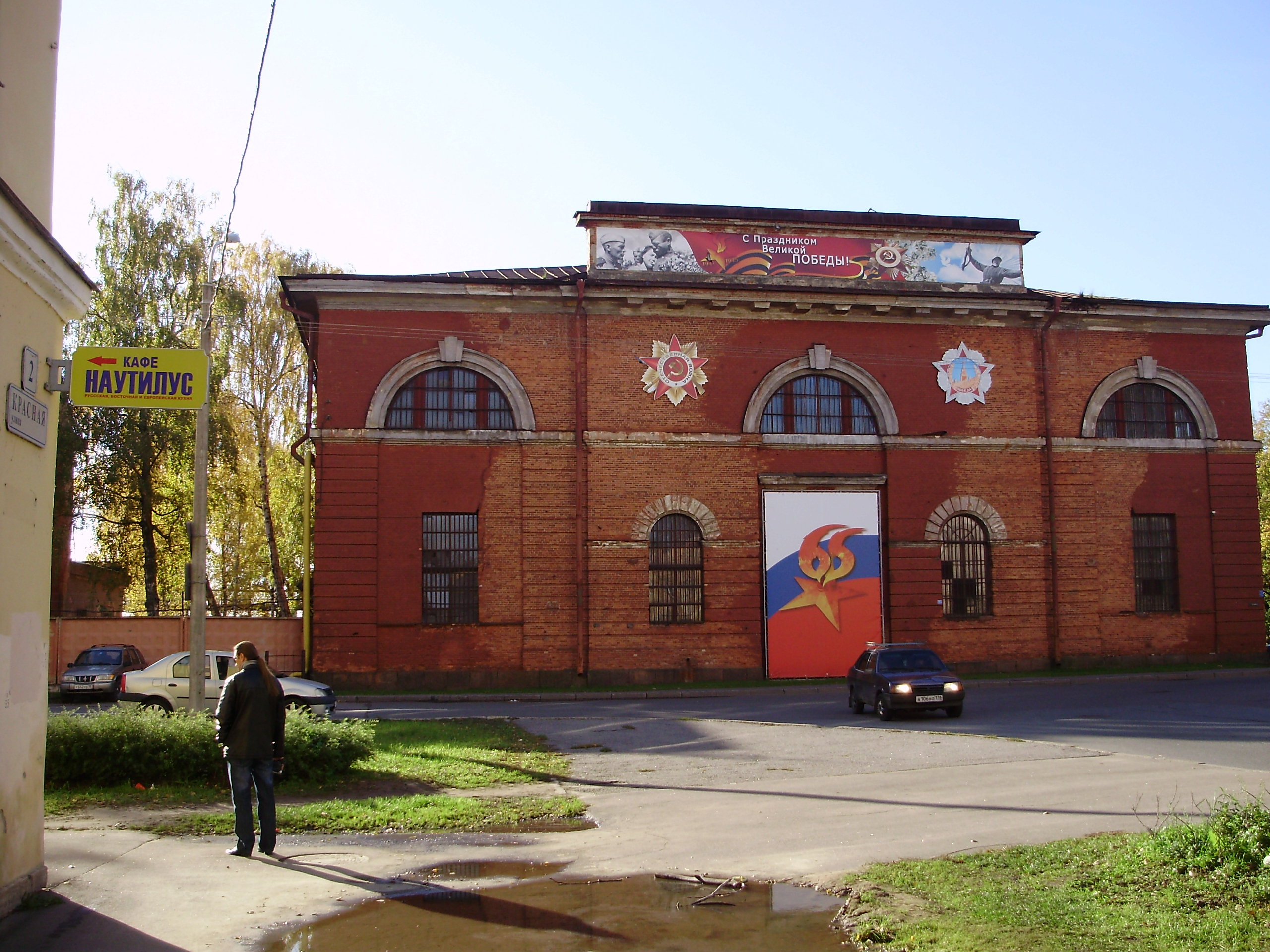 Kronstadt. Intersection of Krasnaya and Makarovskaya. View of the Arsenal.